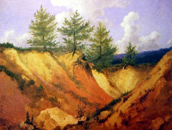 Landscape with three spruces